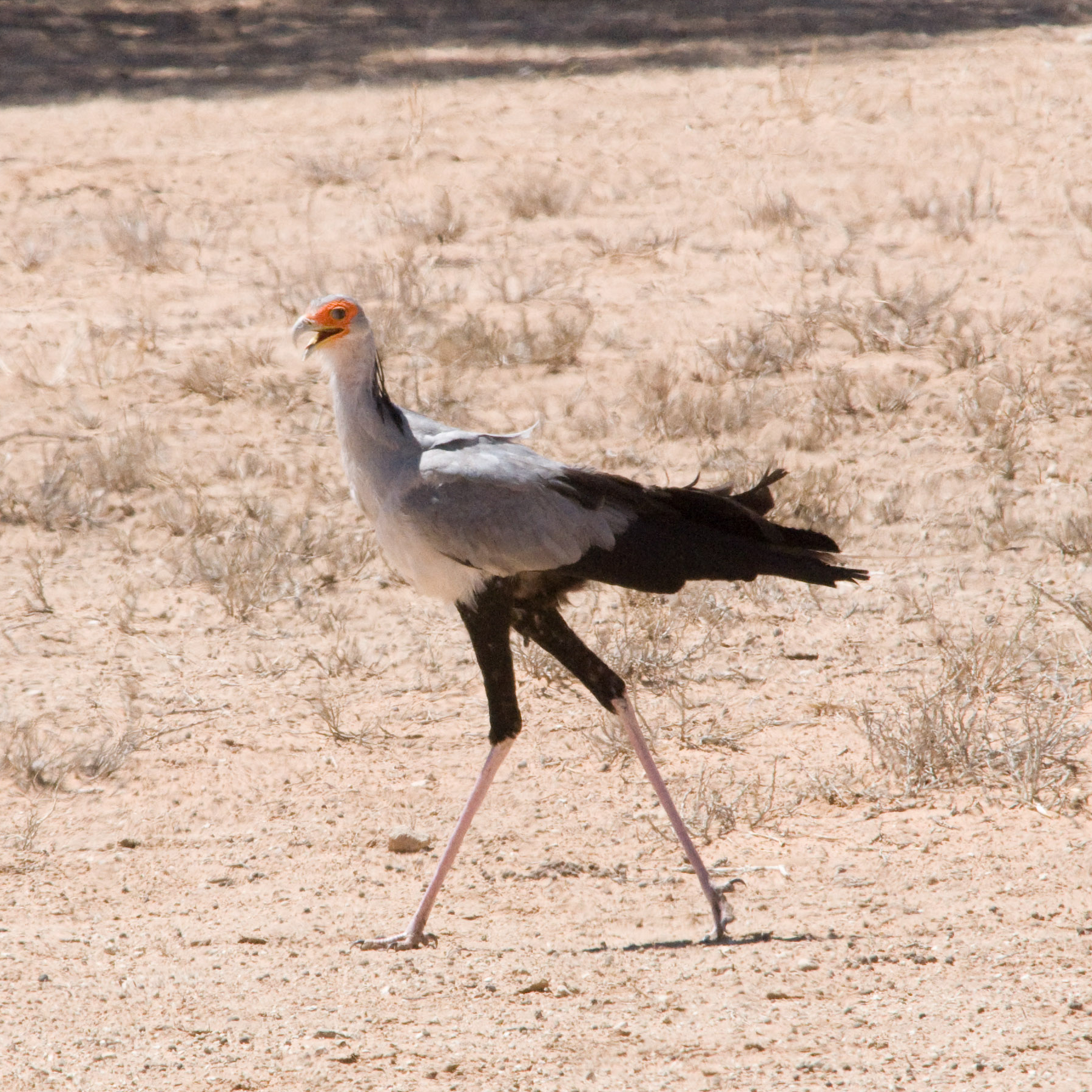 Secretary Bird (Sagittarius serpentarius) in the Kalahari, South Africa.